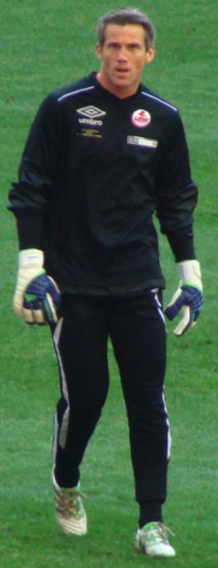 Mickaël Landreau before the Cup of France final with LOSC